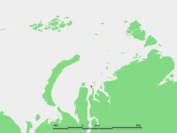 Kara Sea